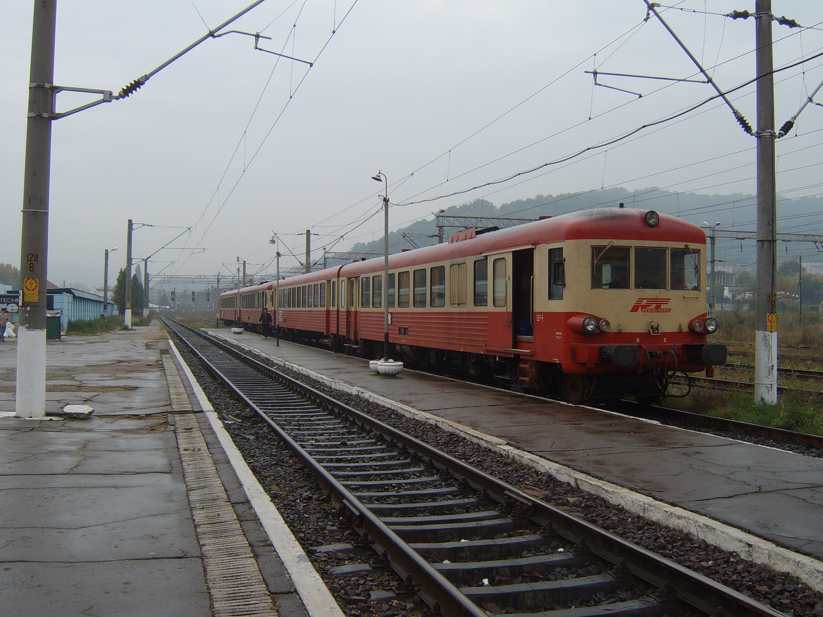 Former SNCF X4500 class now in ownership by private Romanian railway Regiotrans. The train seen worked a service from Voiteni through to Reşiţa Nord.